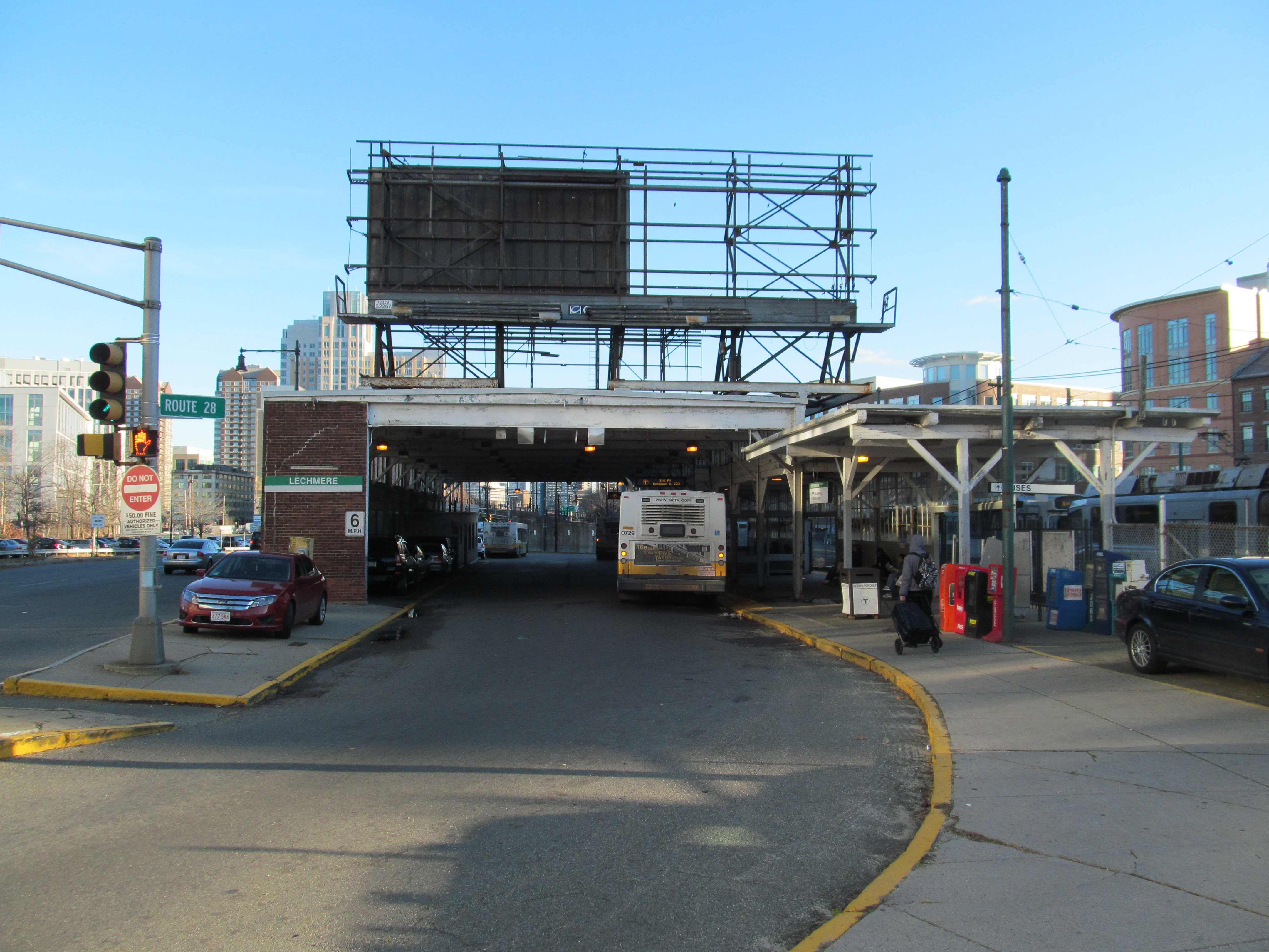 This busway adjacent to the outbound platform at Lechmere serves the 80, 87, and 88 routes which run on State Route 28, as well as some buses on the 69 route which normally use the Cambridge Street busway.